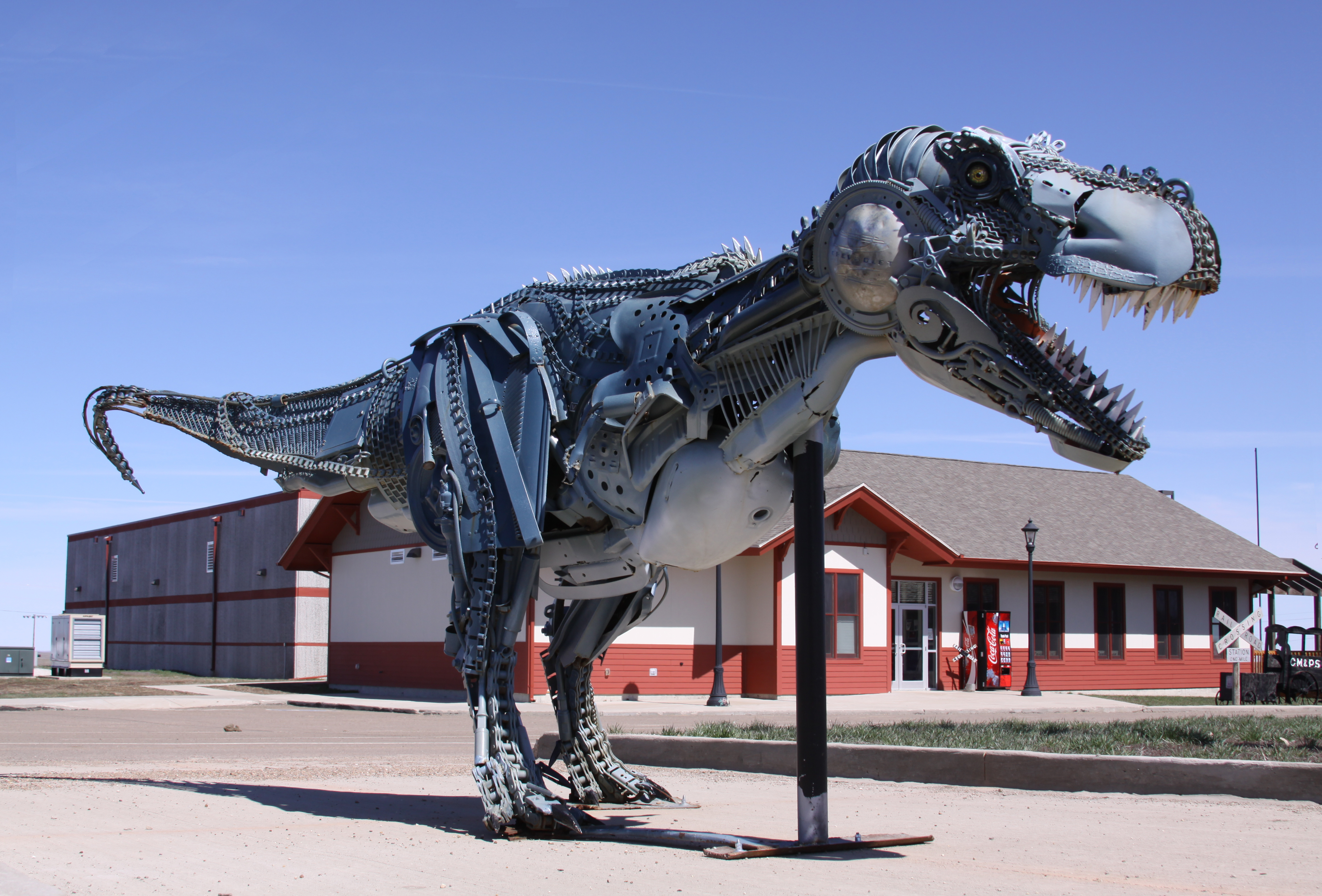 This is a sculpture of "Sue" The largest and most complete T-Rex ever found in the Faith area. Sculpted by John Lopez